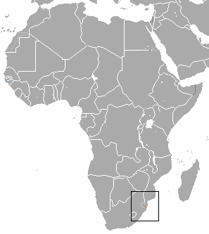 Marley's Golden Mole (Amblysomus marleyi) range